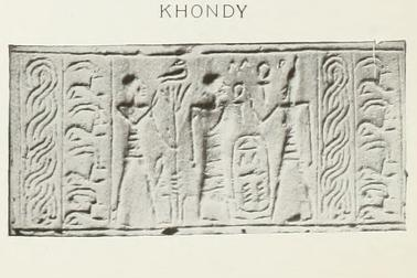 Impression of a Levantine cylinder seal bearing an ancient Egyptian royal name. Once tentatively read as "Khondy" and attributed to a Hyksos ruler of the Second Intermediate Period, it was also attributed to Neferkare Khendu of the First Intermediate Period and, in more recent times, to the last of the Hyksos kings, Khamudi. Today is likely that the cylinder cartouche contains some "space-filler hieroglyphs", is datable to the late Middle Kingdom or early Hyksos period, and that it comes from Byblos. Green jasper, 18th-17th century BCE, now in the Petrie Museum (UC 11616). More information here.